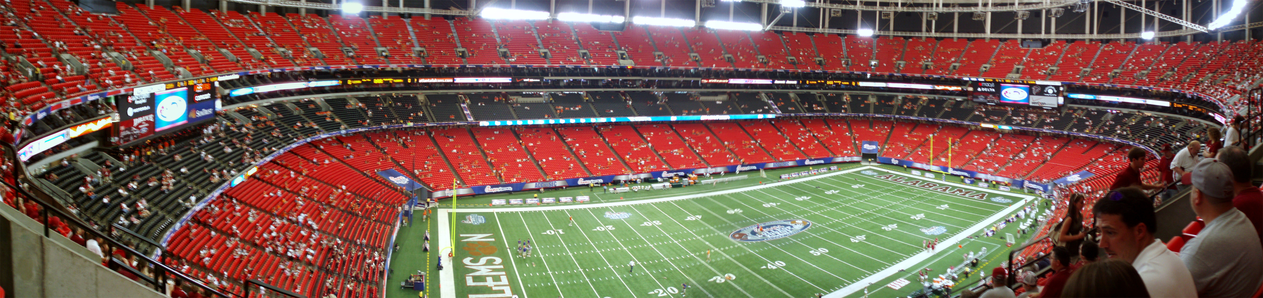 The Georgia Dome in Atlanta, Georgia, prior to a college football game.